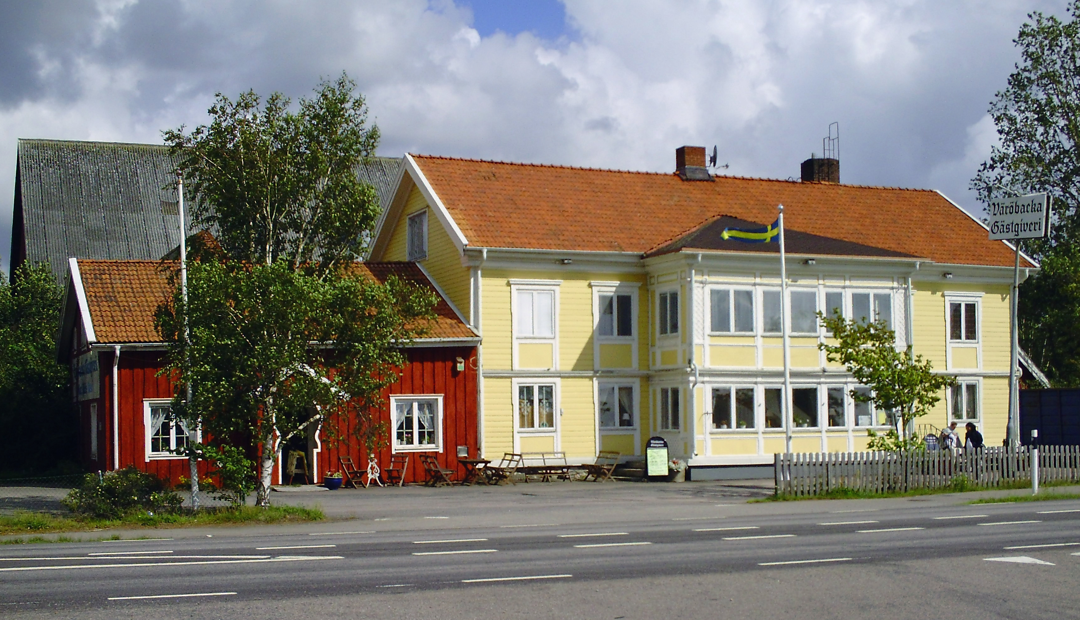 Väröbacka Gästgiveri in Väröbacka, Halland, Sweden.